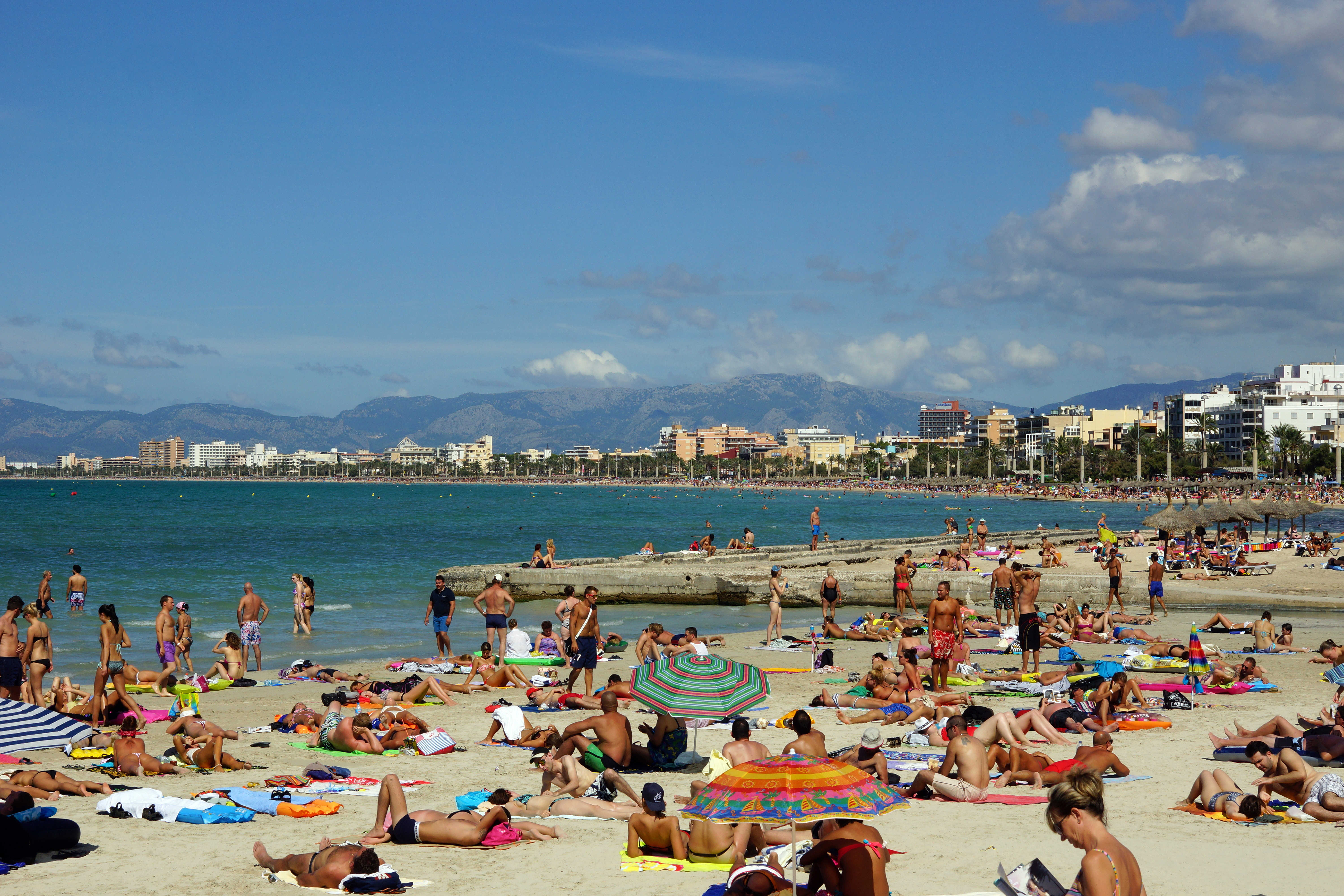 Platja de Palma, Majorca, Spain